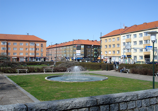 Nobeltorget, Malmö, Sweden